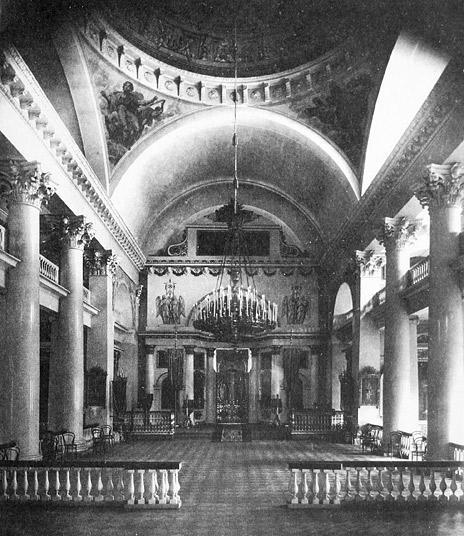 Interier of the Pokrov church (1890s)